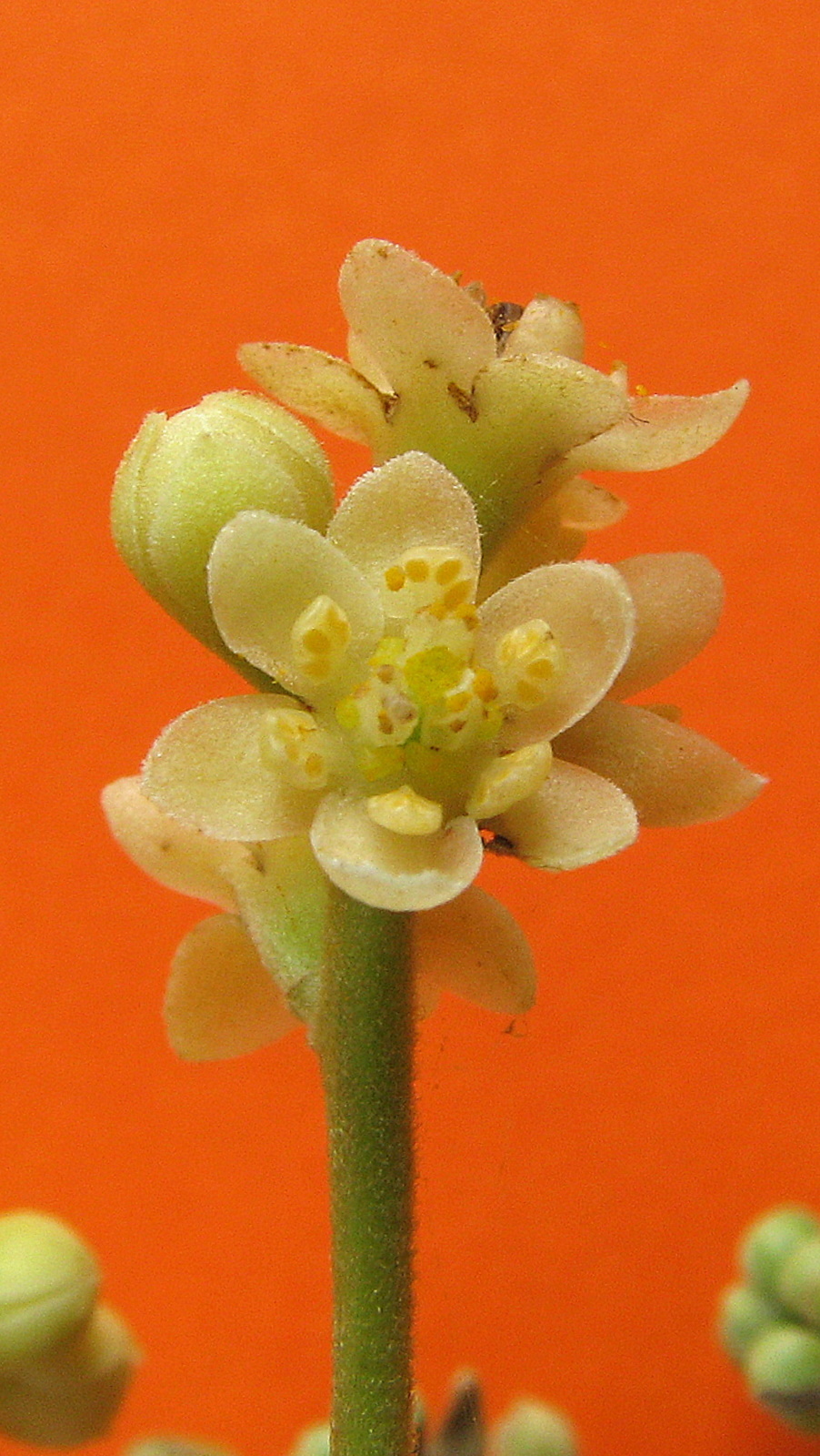 Ocotea lancifolia (Schott) Mez